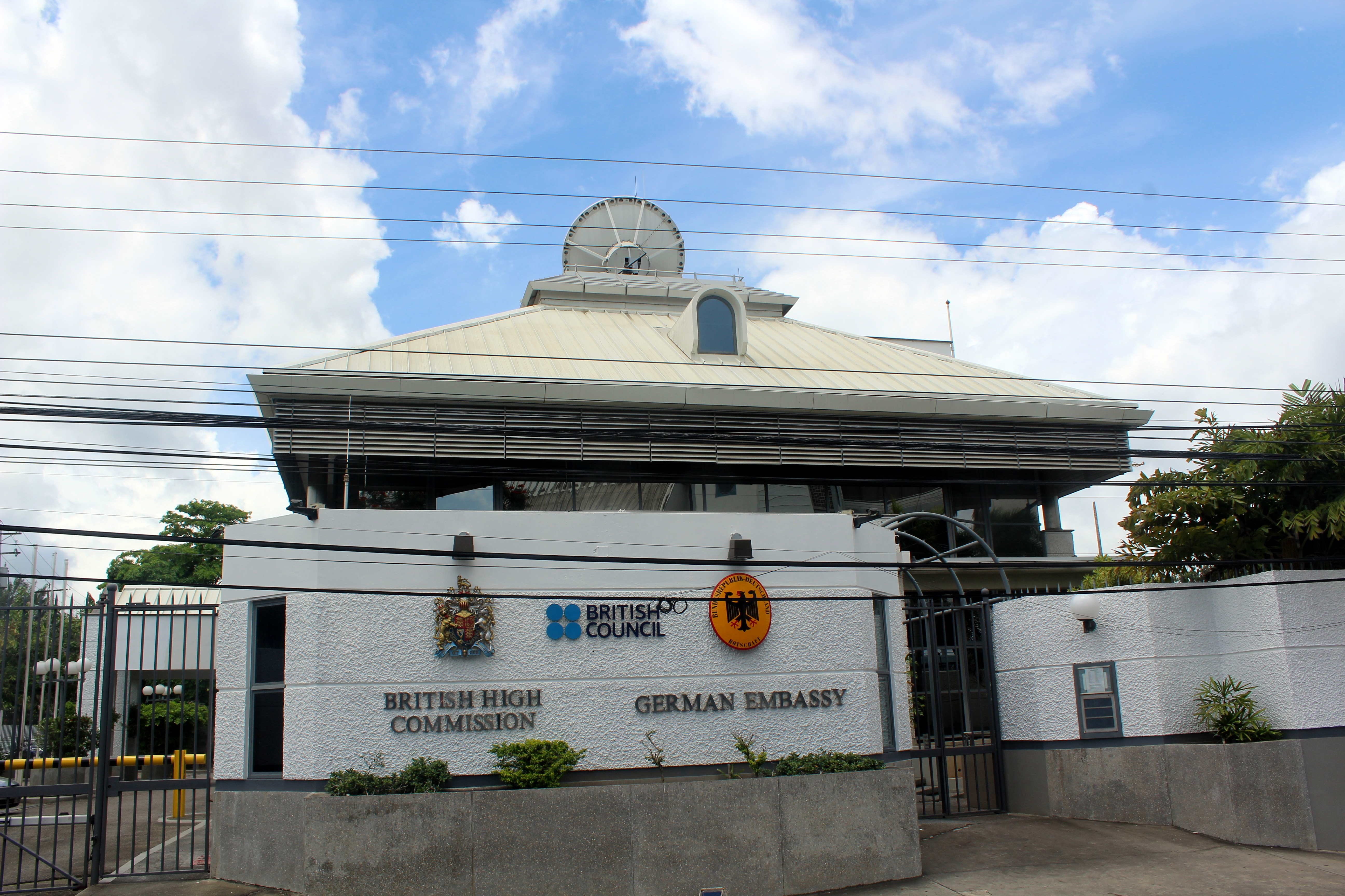 Joint British High Commission and German Embassy in Port of Spain